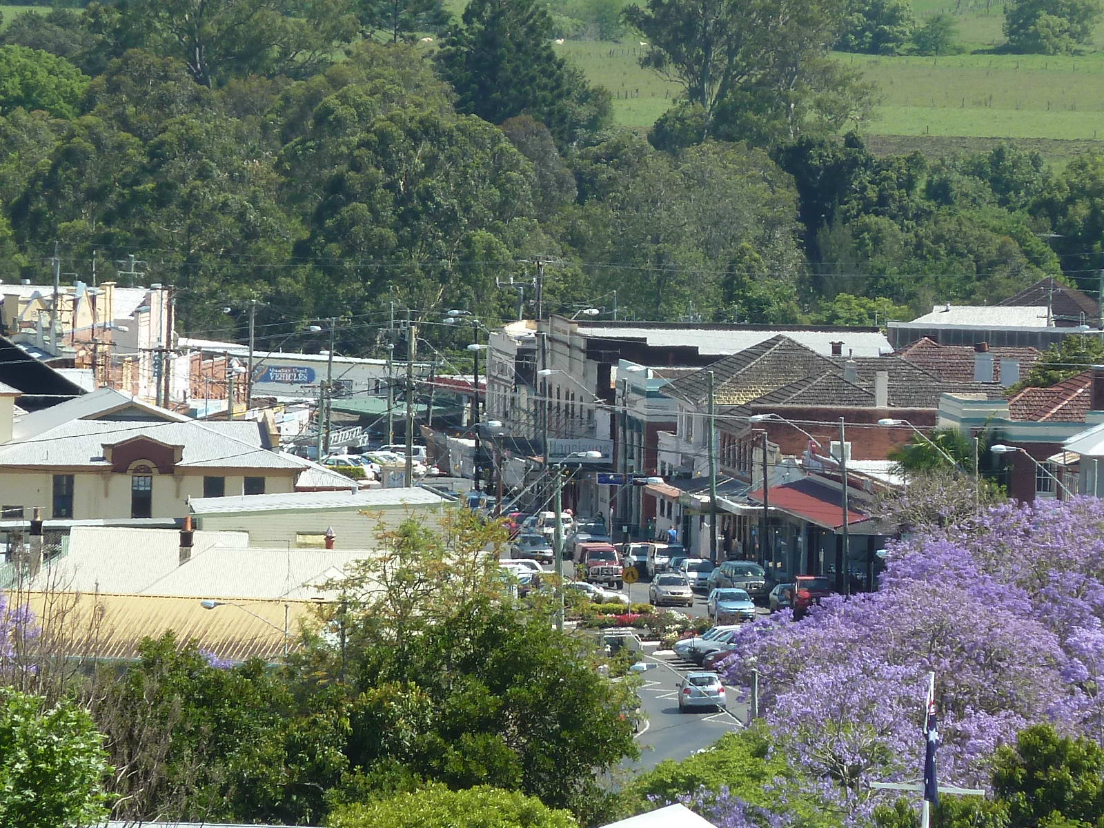 Kyogle